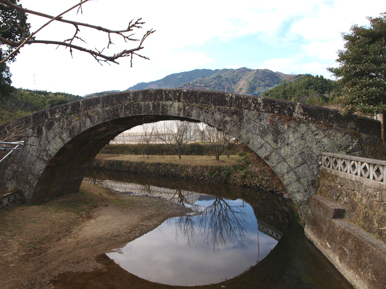 Man'nenbashi Bridge at Sasamuta Shrine, Oita, Oita, Japan